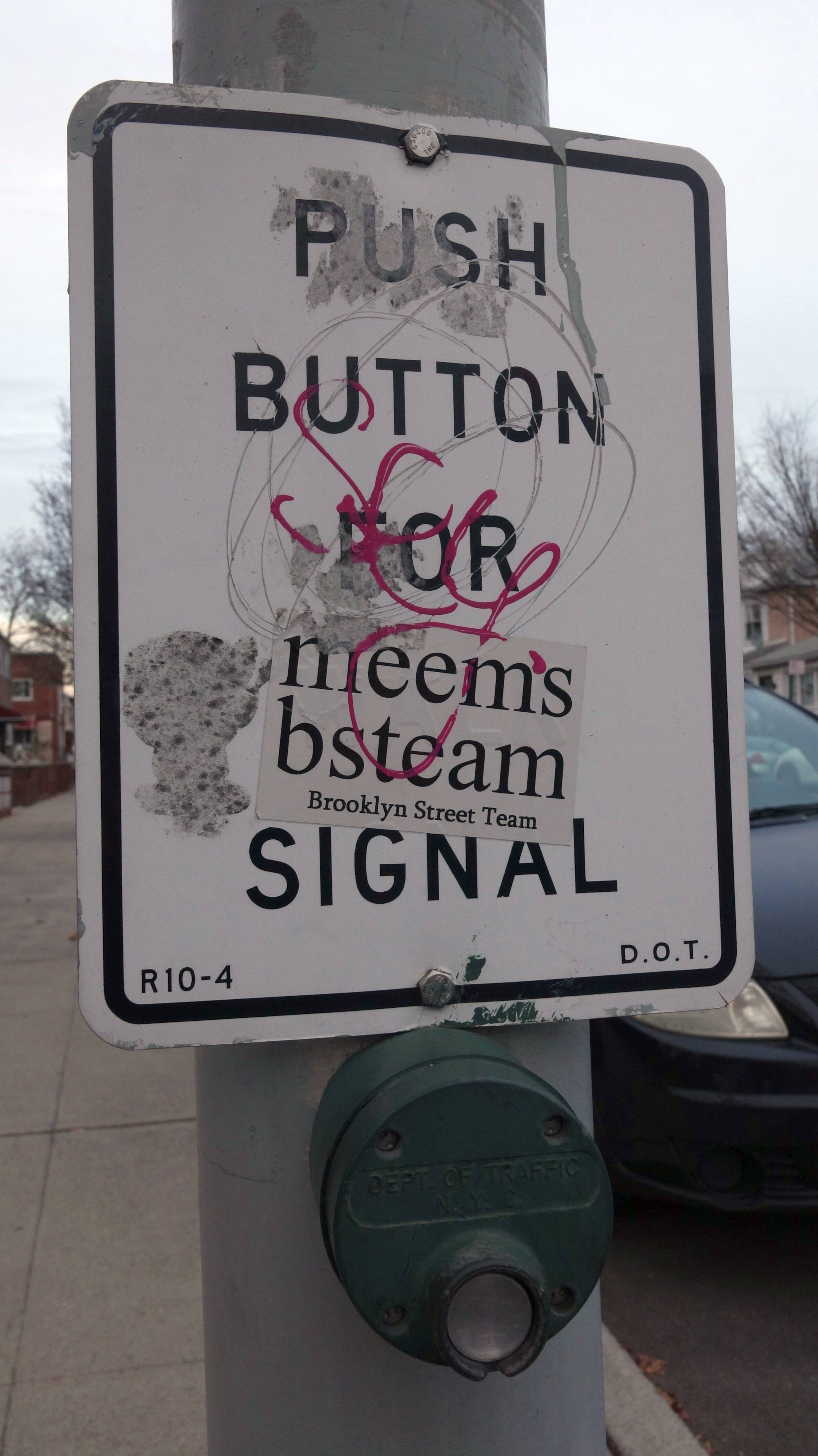 A crosswalk button in Bensonhurst, Brooklyn